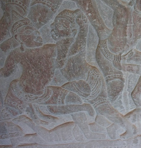 bas relief of leg trip used in khmer martial arts.